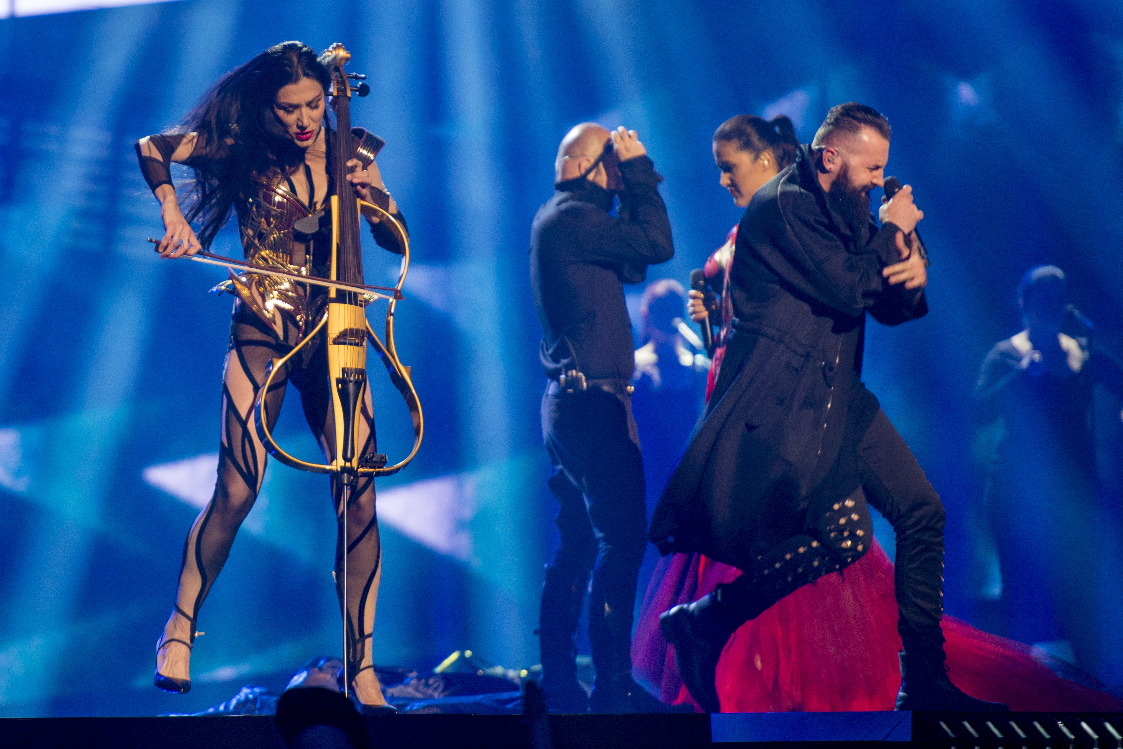 Dalal & Deen feat. Ana Rucner and Jala representing Bosnia and Herzegovina with the song "Ljubav je" during a rehearsal before the first semi final of the Eurovision Song Contest 2016 in Stockholm. (Help translate this text)